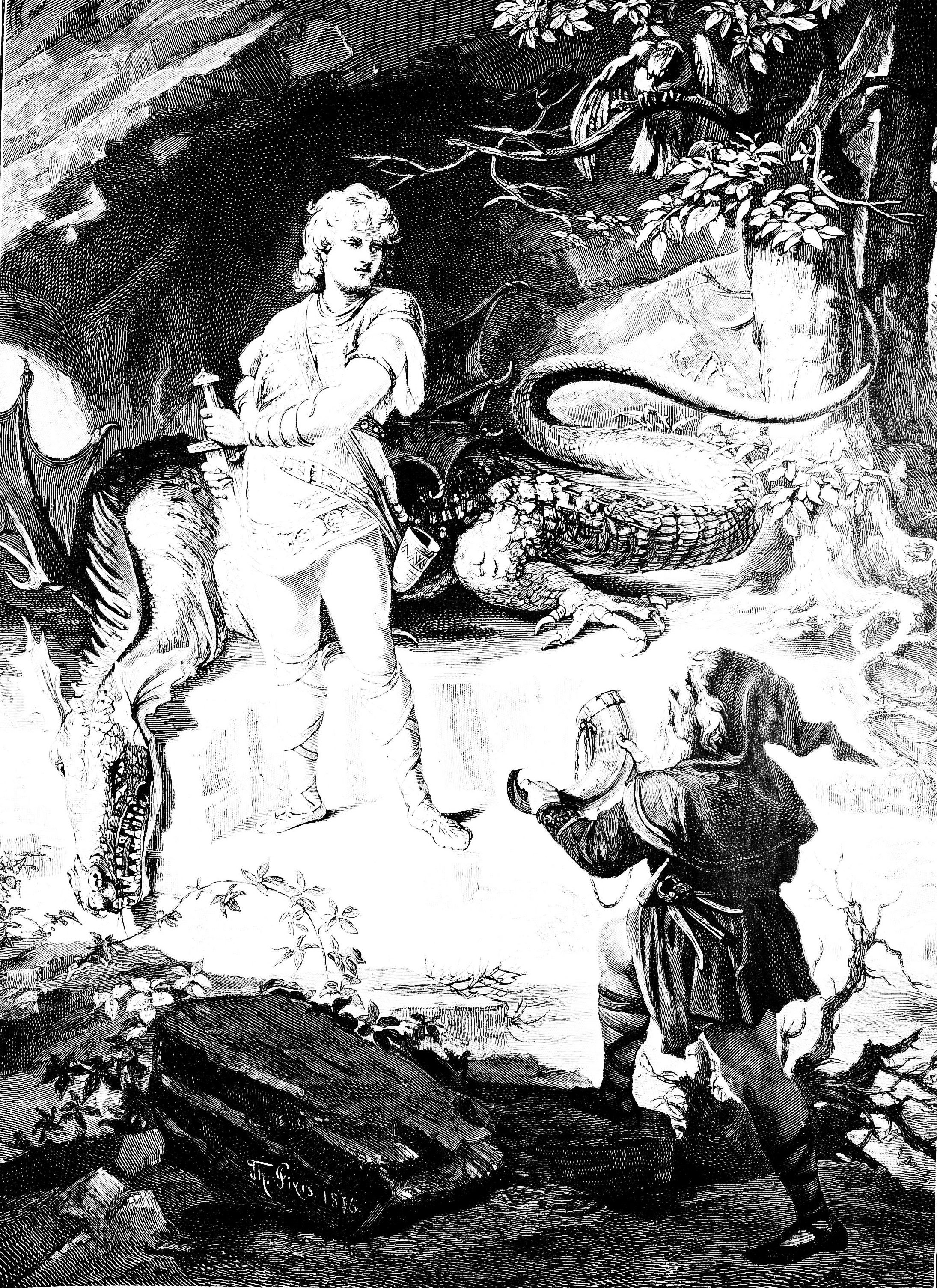 no caption